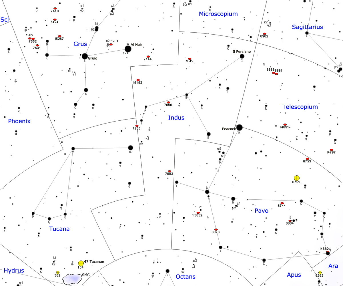 Map of Indus